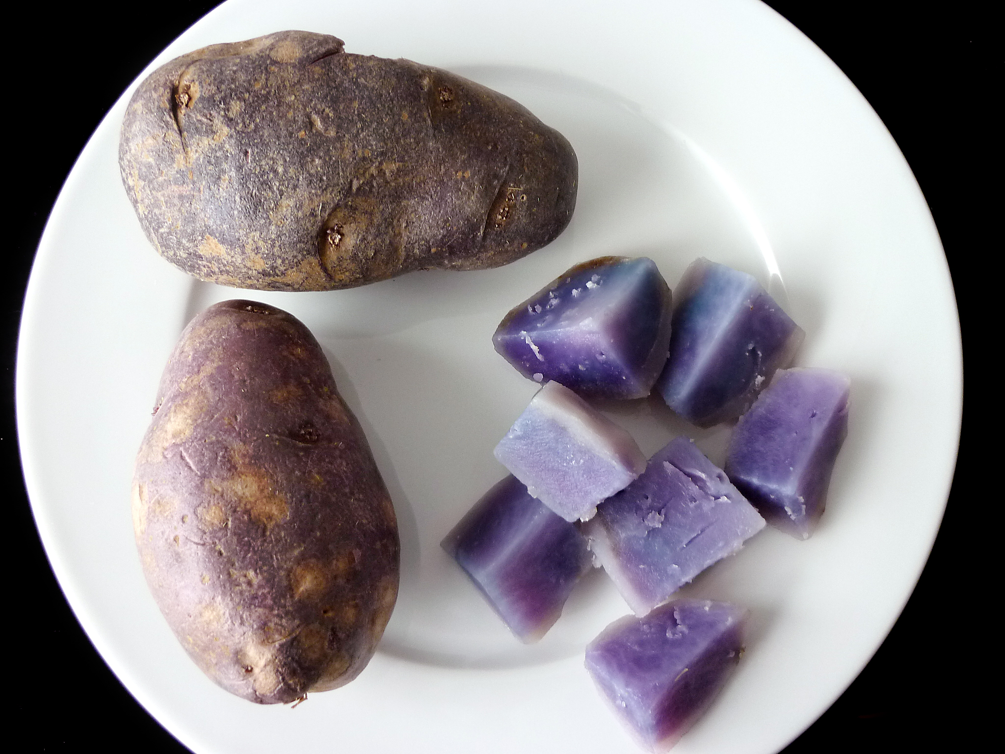 Potato variety Blue Swede